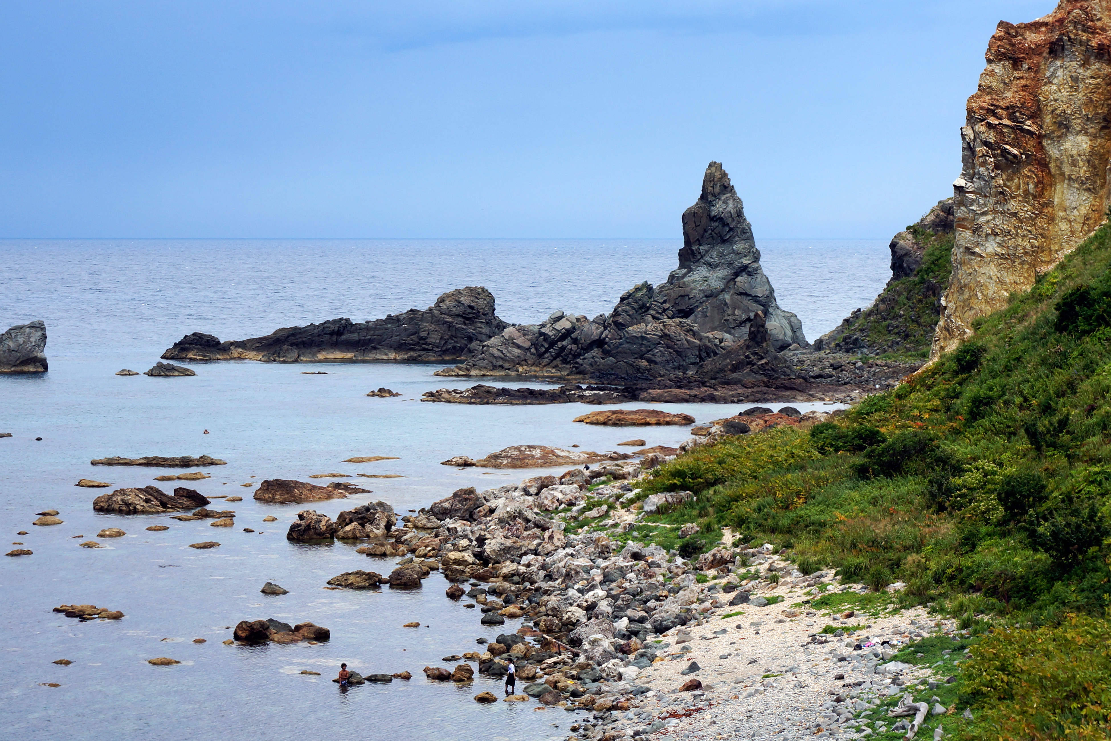 Shimamui Coast in Shakotan, Hokkaido prefecture, Japan.